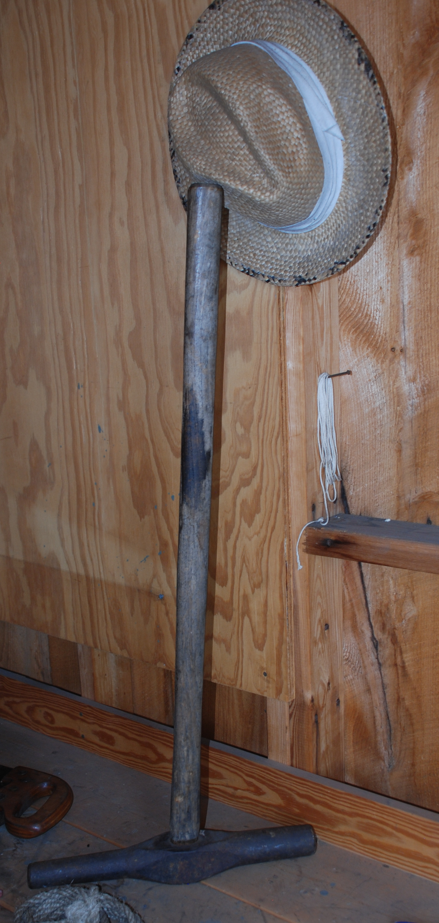 Sledgehammer for driving railroad spikes into wooden sleepers during rail construction, at C&O Railway Heritage Center in Clifton Forge, Virginia